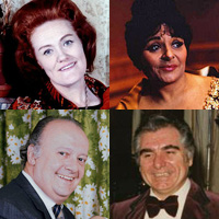 Joan Sutherland, Victoria de los Angeles, Geraint Evans and Tito Gobbi.